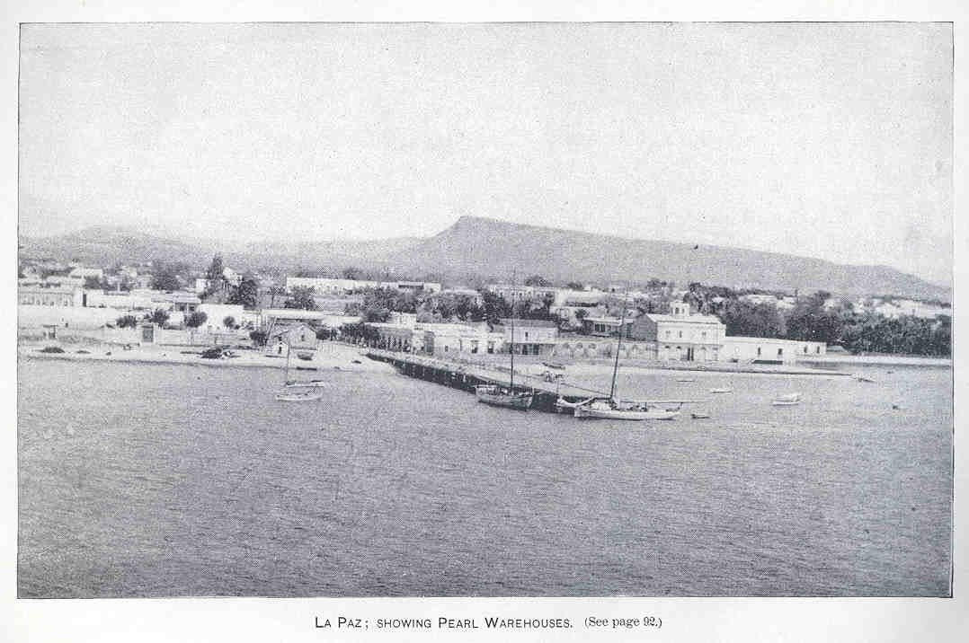 La Paz; Showing Pearl Warehouses Subject: Pearl fisheries, La Paz (Baja California Sur) Geographic Subject: Mexico--Baja California Sur--La Paz Tag: Commercial Fisheries